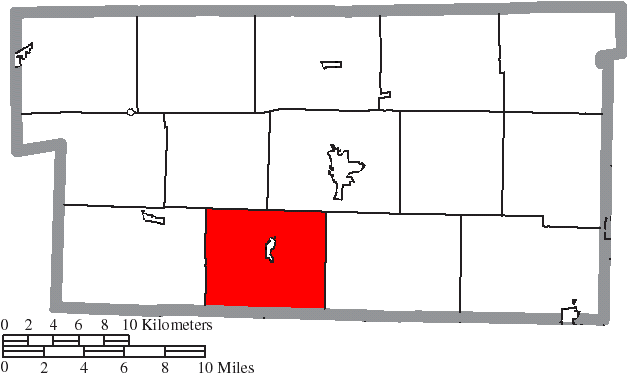 Map of the municipal and township boundaries of Holmes County, Ohio, United States, as of the 2000 census, with the location of Killbuck Township highlighted. Township borders are shown only in unincorporated areas in order to differentiate incorporated and unincorporated areas more clearly.